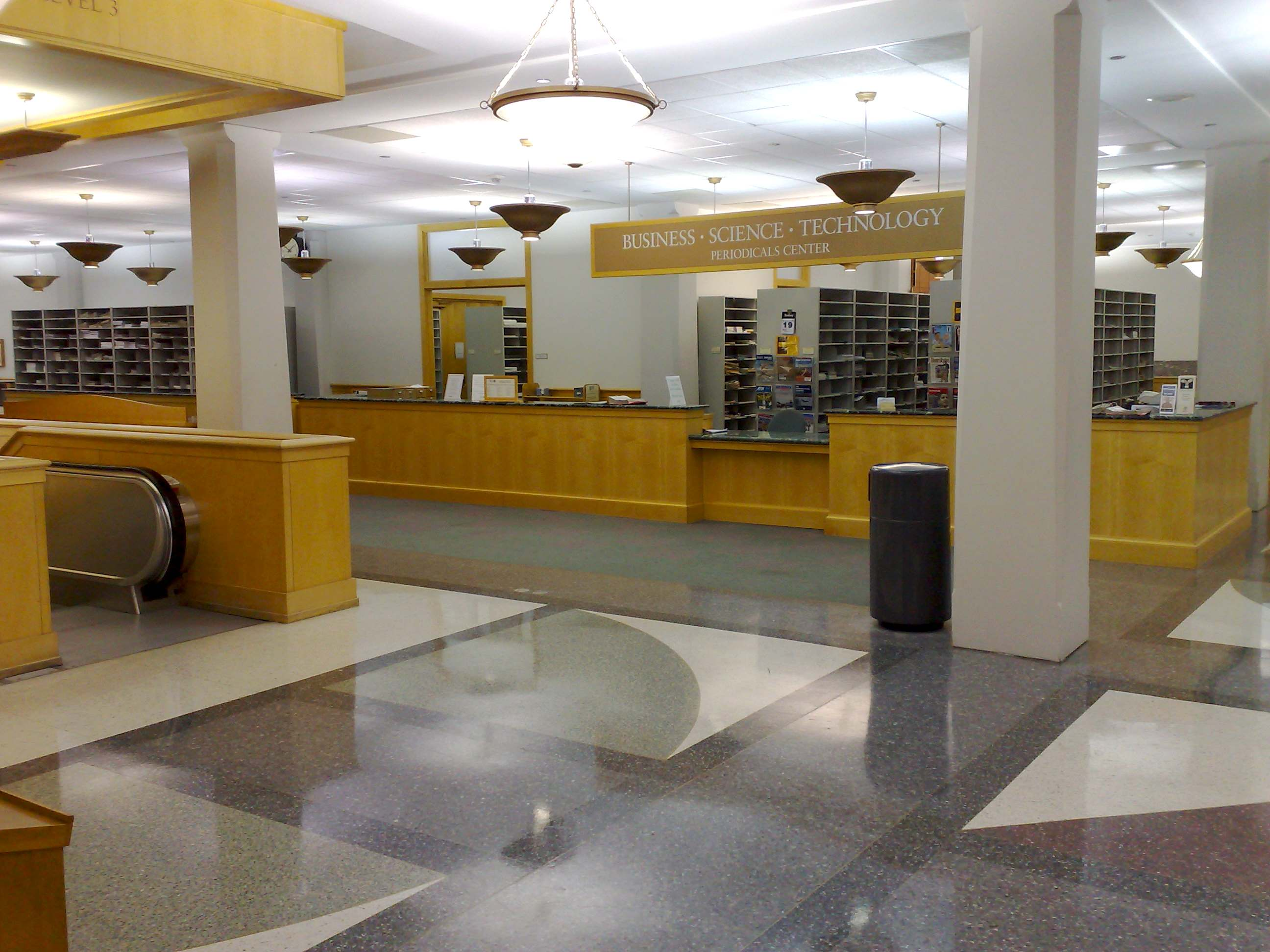 4th level of the Harold Washington Library (Chicago)